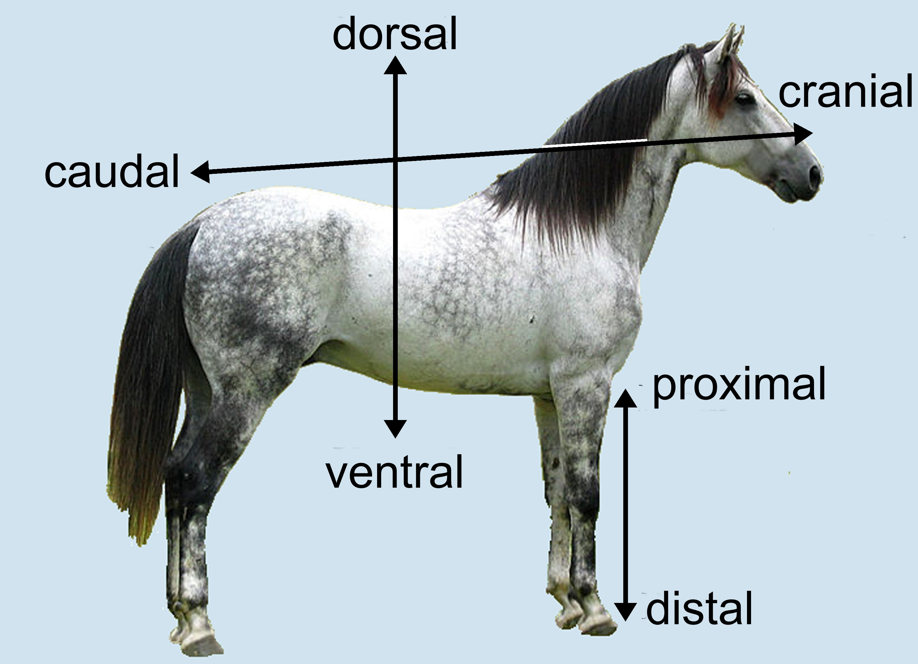 Directional axes in a tetrapod.